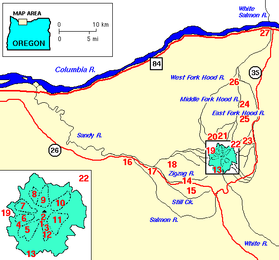 map of Mount Hood's glaciers and rivers Converted image format from .gif to .png 2006-8-9 using photoshop CS2 (9.0.1)